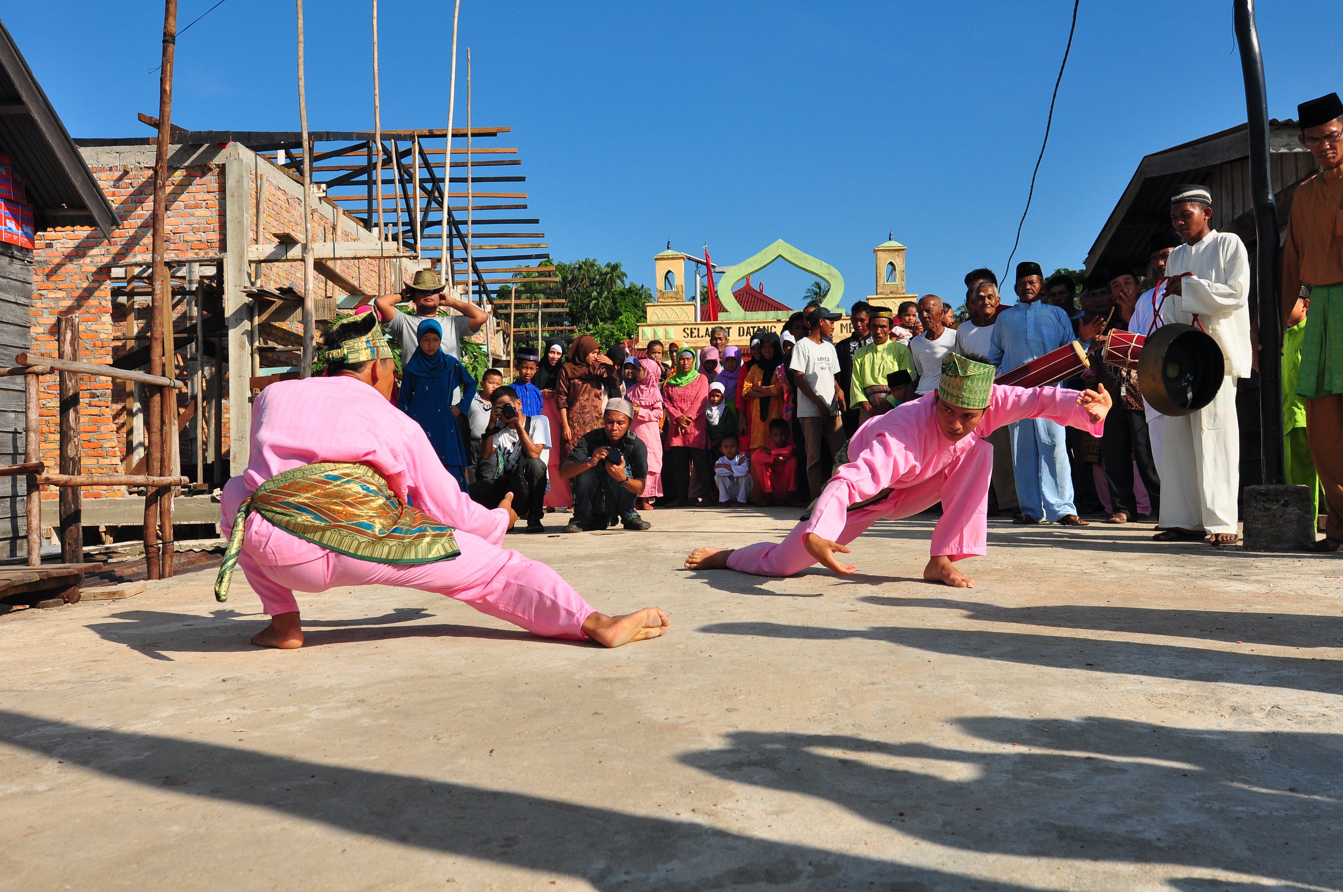 Silat pengantin is martial dance for wedding ceremony in Riau, Indonesia